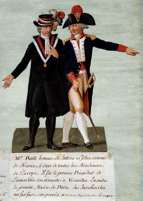 Image of Jean Sylvain Bailly (1736-1793), president of the National Constituent Assembly of Versailles, then mayor of the city of Paris, accompanied probably by Lafayette, commander-in-chief of National Guard.